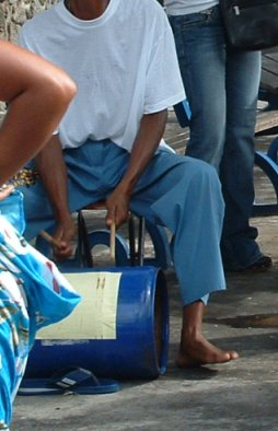 Maloya player using a metal drum as an instrument. Maloya players were recruited from farm labourers, or ex-slaves, and could not afford expensive instruments, so these were improvised from scratch, and still are. Maloya was banned until the sixties.